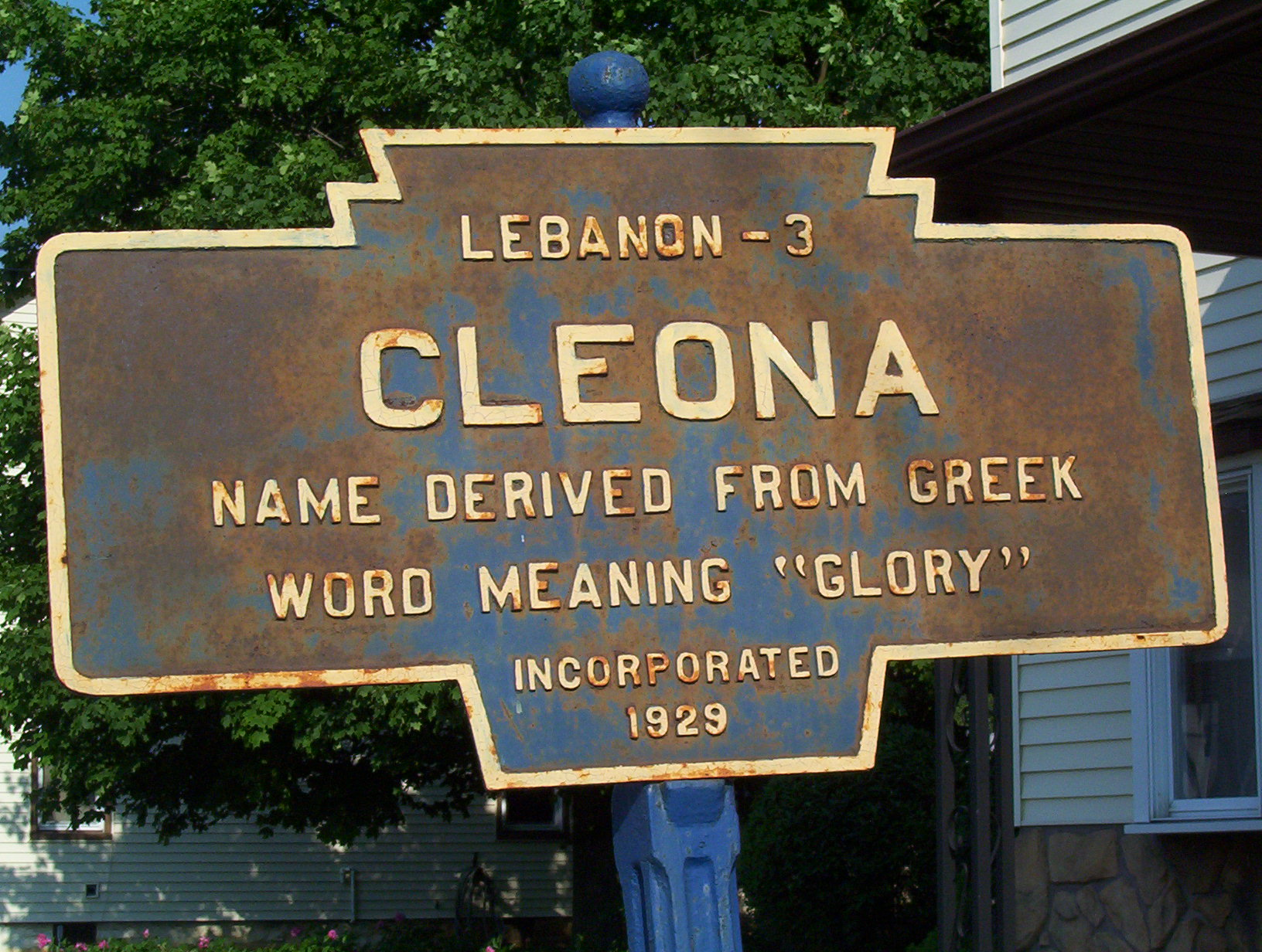 The Keystone Marker when entering Cleona Borough in Lebanon County east on U.S. Route 422.